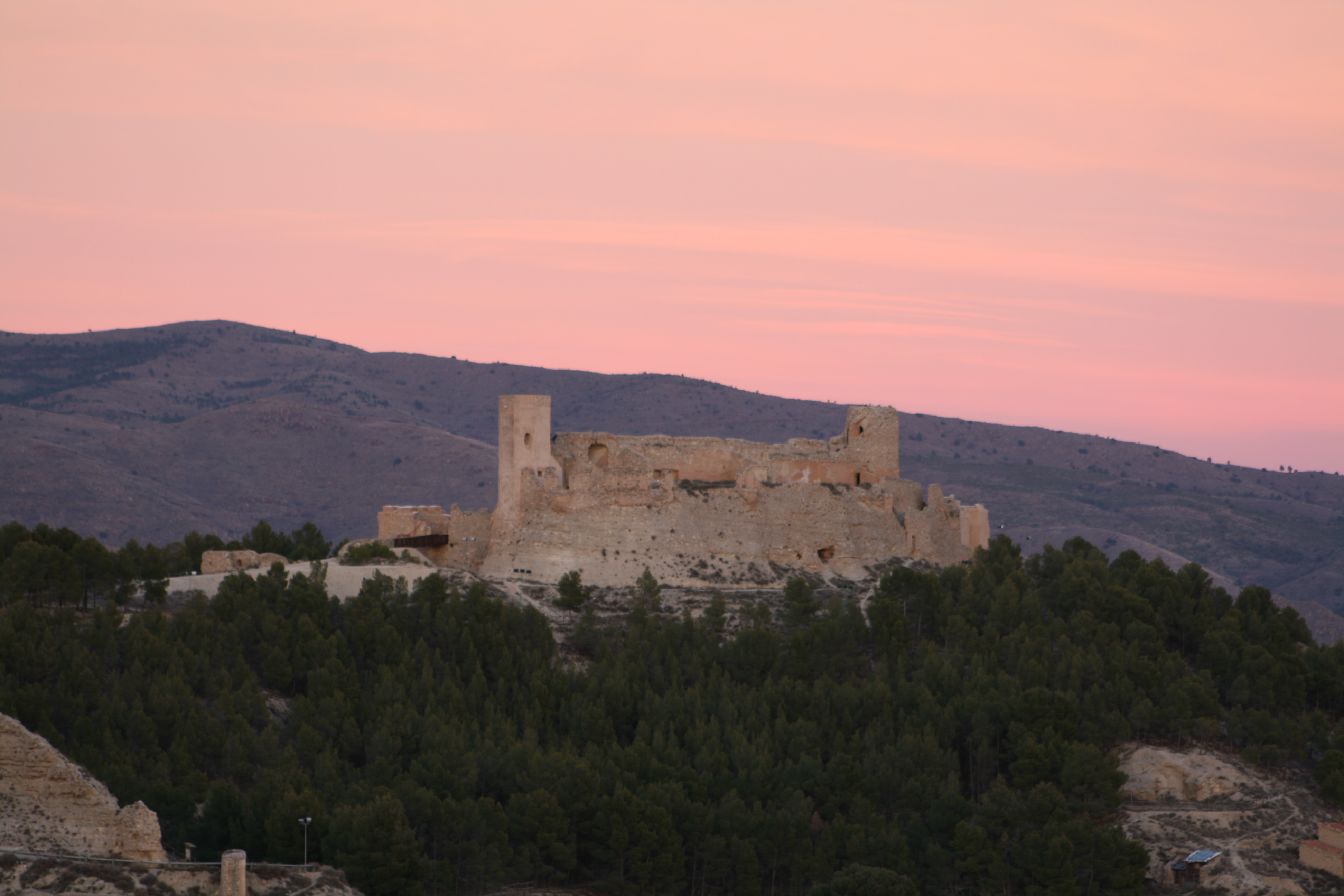 Castle of Ayyub, Calatayud, Spain